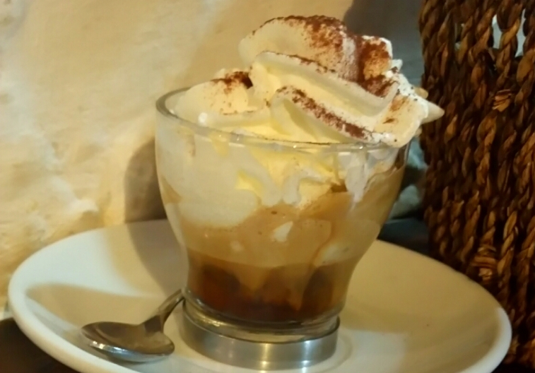 Affogato al caffè (vanilla ice cream in a cup of espresso garnished with whipped cream).